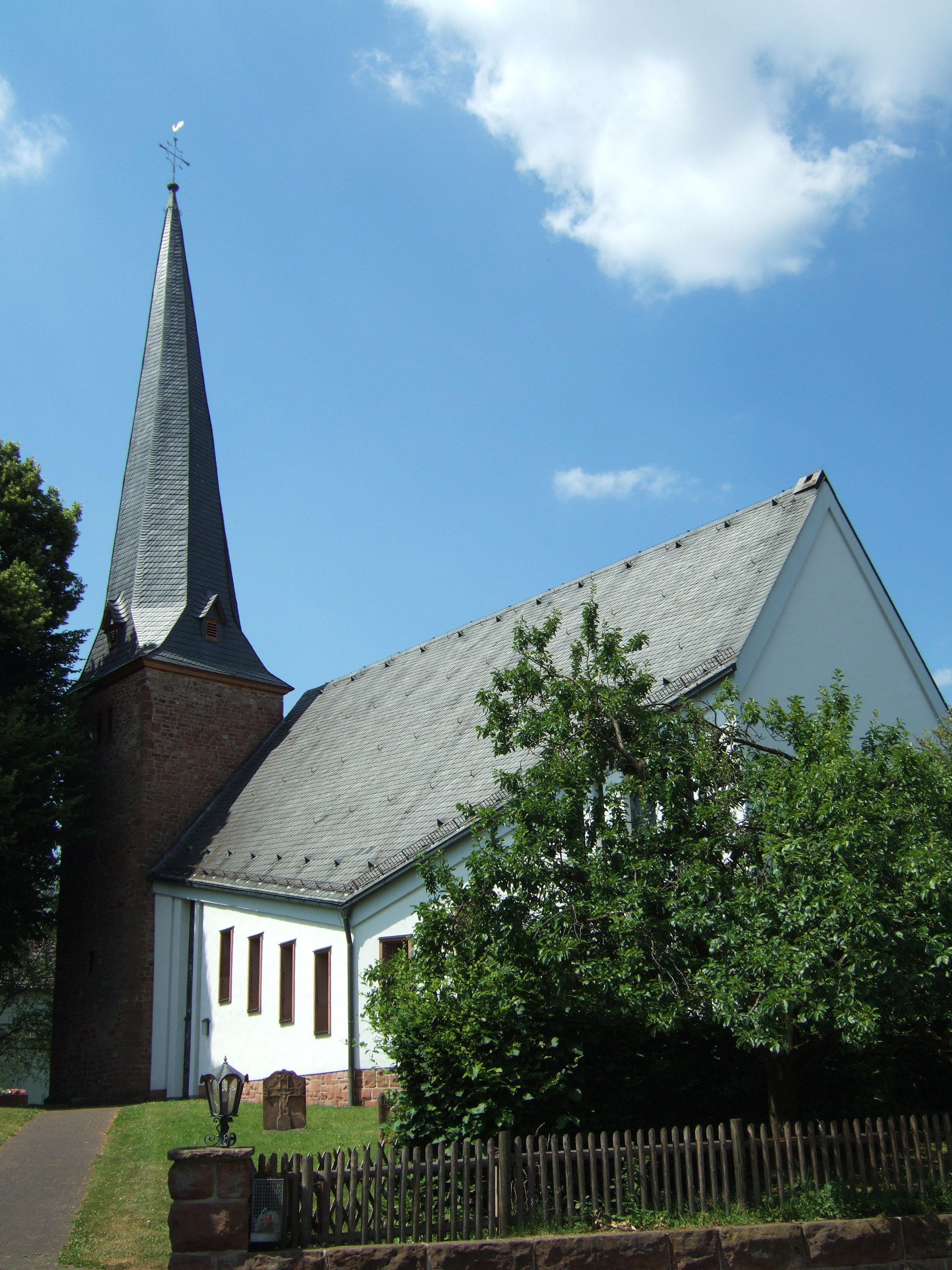 Protestant Church, Bottendorf (Burgwald), Germany